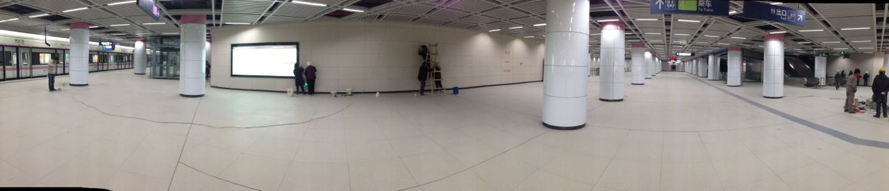 Hongshan Square Station